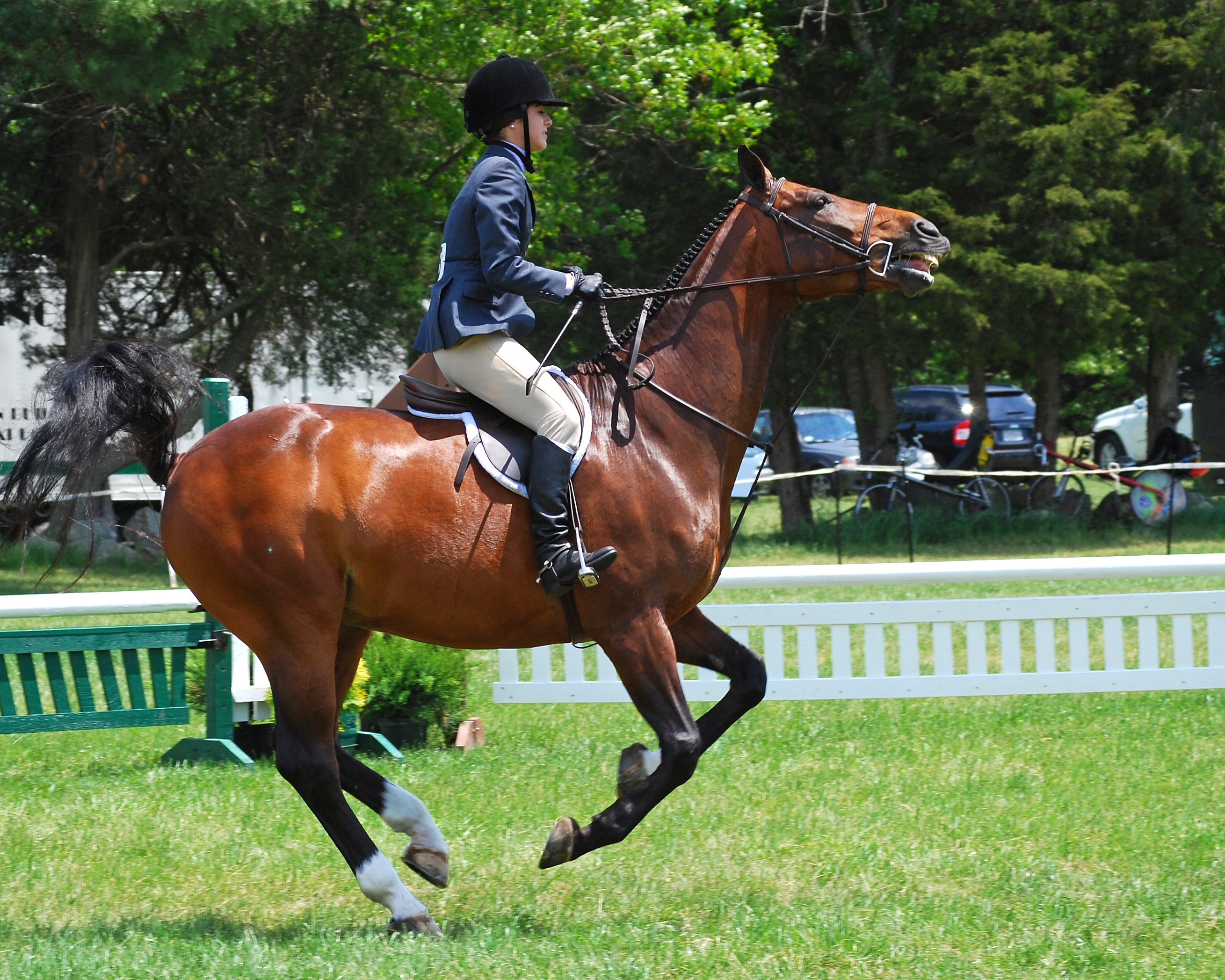 The 98th Annual Norfolk Hunt Horse Show was held May 31 and June 1, 2008 at the Norfolk Hunt Steeplechase Course in Medfield, MA.